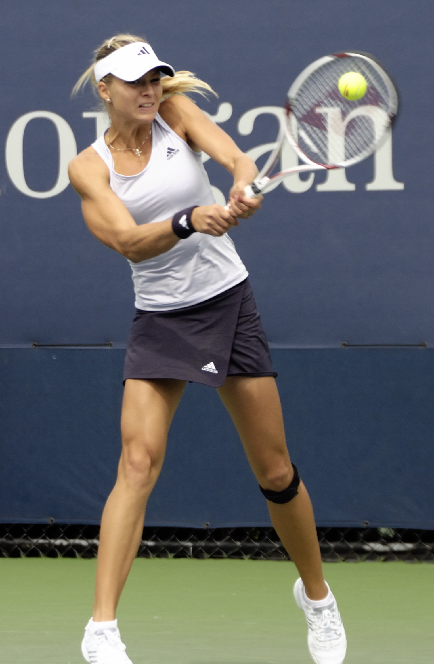 Maria Kirilenko at the 2009 US Open